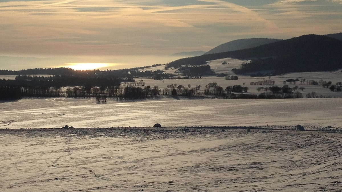 From the hills above the high plateau of Diesse looking towards Lignières and the Lake Neuchâtel